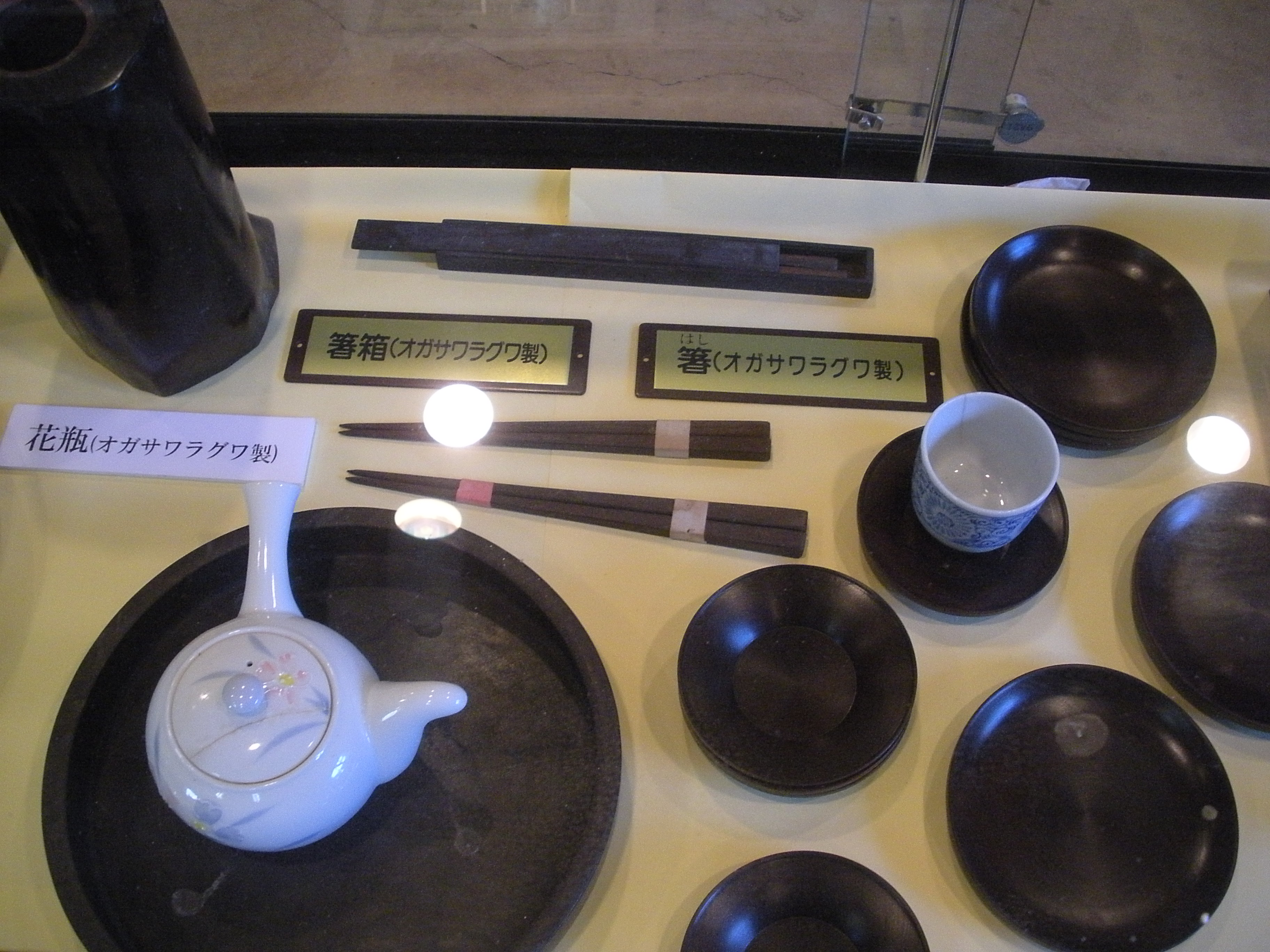 Ross Museum in Japan Bonin Islands Hahajima